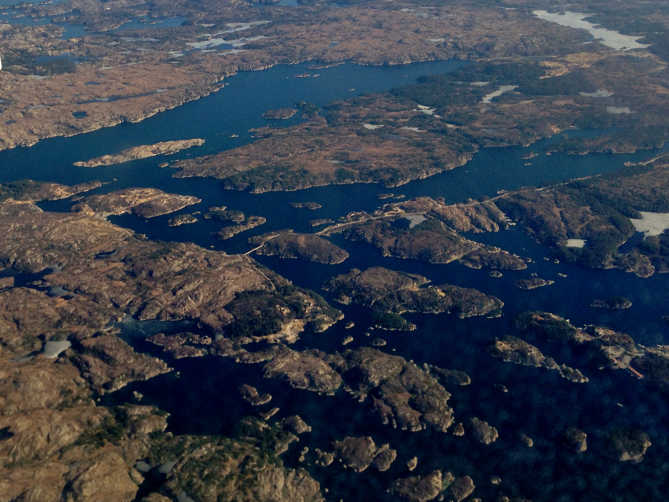 Southern Goddo and other small islands in Bømlo, Hordaland, Norway.